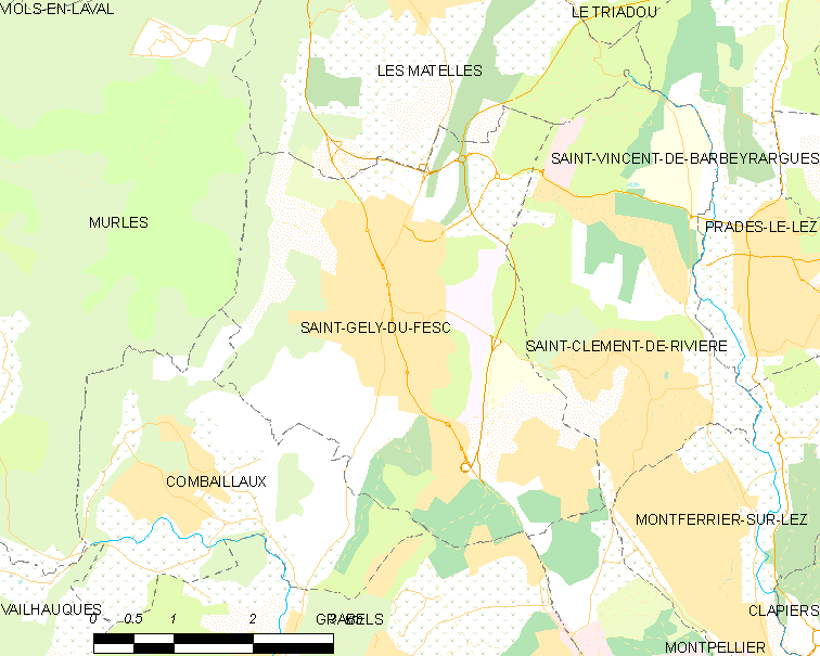 Map commune FR insee code 34255.png - Saint-Gély-du-Fesc